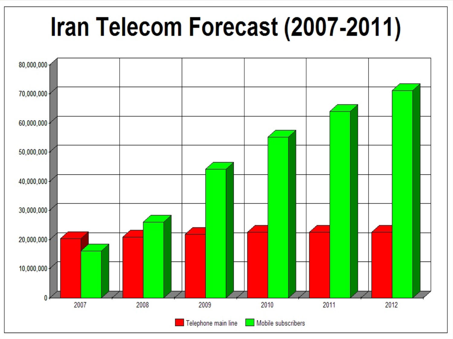 Iran Telecom Forecast. (Sources for data: Pyramid Research; IDC; Economist Intelligence Unit.)